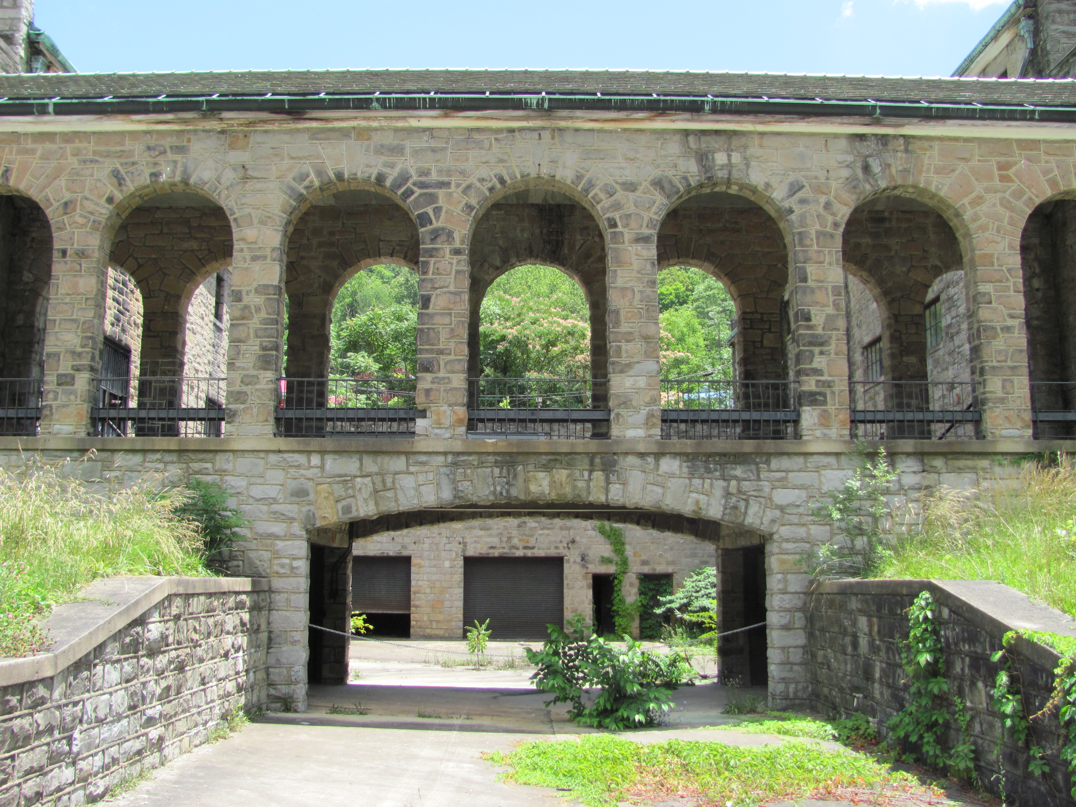 Itmann was a coal company town founded in 1916 by I.T. Mann, once one of the richest men int the world. This Company Store/Office complex was built 1923-1925 on plans of Alex Mahood using Italian stone masons. Placed on National Register in 1990. Ritter Lumber shipped in 200 premade company houses in 1919 via N&W and Virginian lines. Itmann was a coal company town founded in 1916 by I.T. Mann, once one of the richest men in the world.